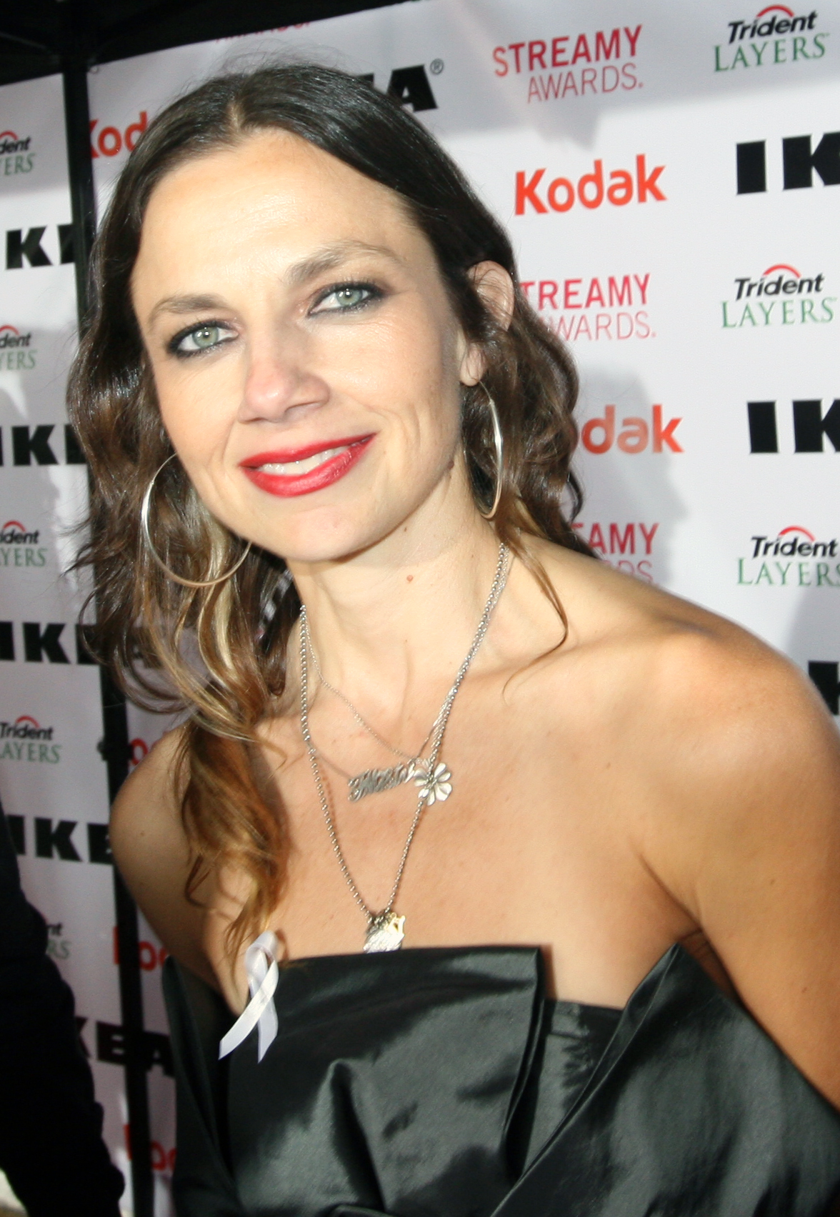 Justine Bateman at the Streamys 2010